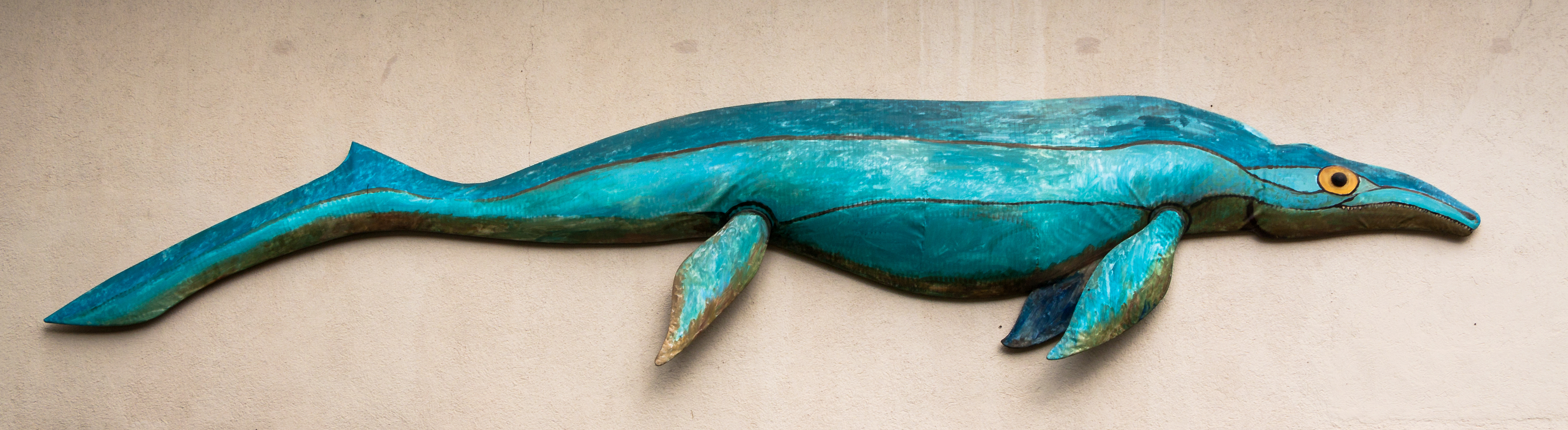 Model in life size (ca. 9 m) of Cymbospondylus spec. at the facade of the Museum de Gherdëina, Urtijëi, South Tyrol, Italy.